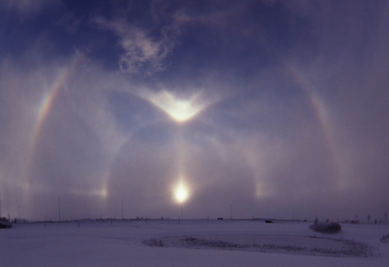 46° Halo or more probably, supralateral arc (cannot make a positive ID) photographed in Falköping Sweden in the winter of 2002/2003. Other rare haloes are visible too: a Parry arc close above the Upper tangent arc, and possibly a Parry supralateral arc tangent to the supralateral arc where it is brighter, especially on the left side. Equipment: 35 mm film, 16 mm Fish-eye. Perspective corrected with PTGui